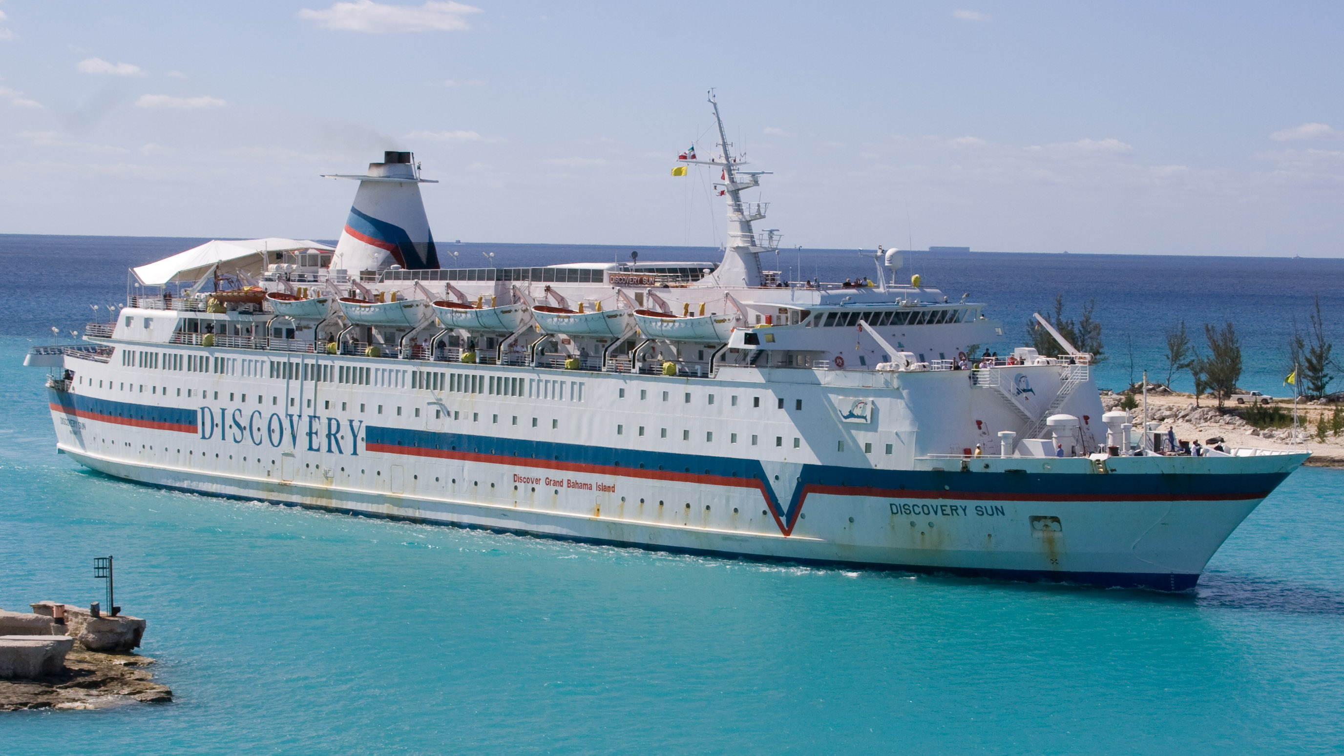 The Discovery Sun arrives at Lucayan Harbor.